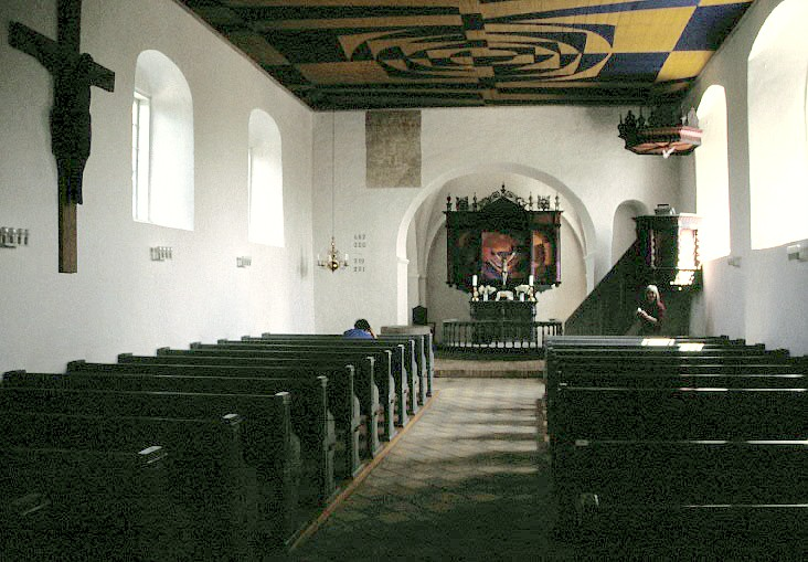 Hover Kirke in Vejle Kommune from apr. 1100